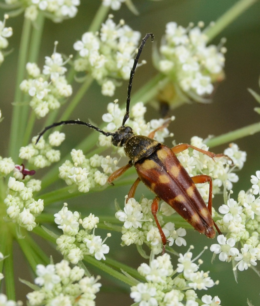 at Spring Garden natural area in Windsor, Ontario.